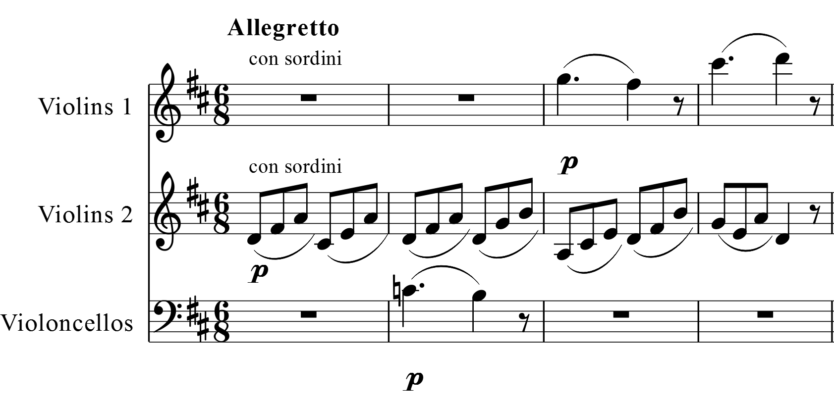 Joseph Haydn, Symphony No. 62, second movement, bar 1-4